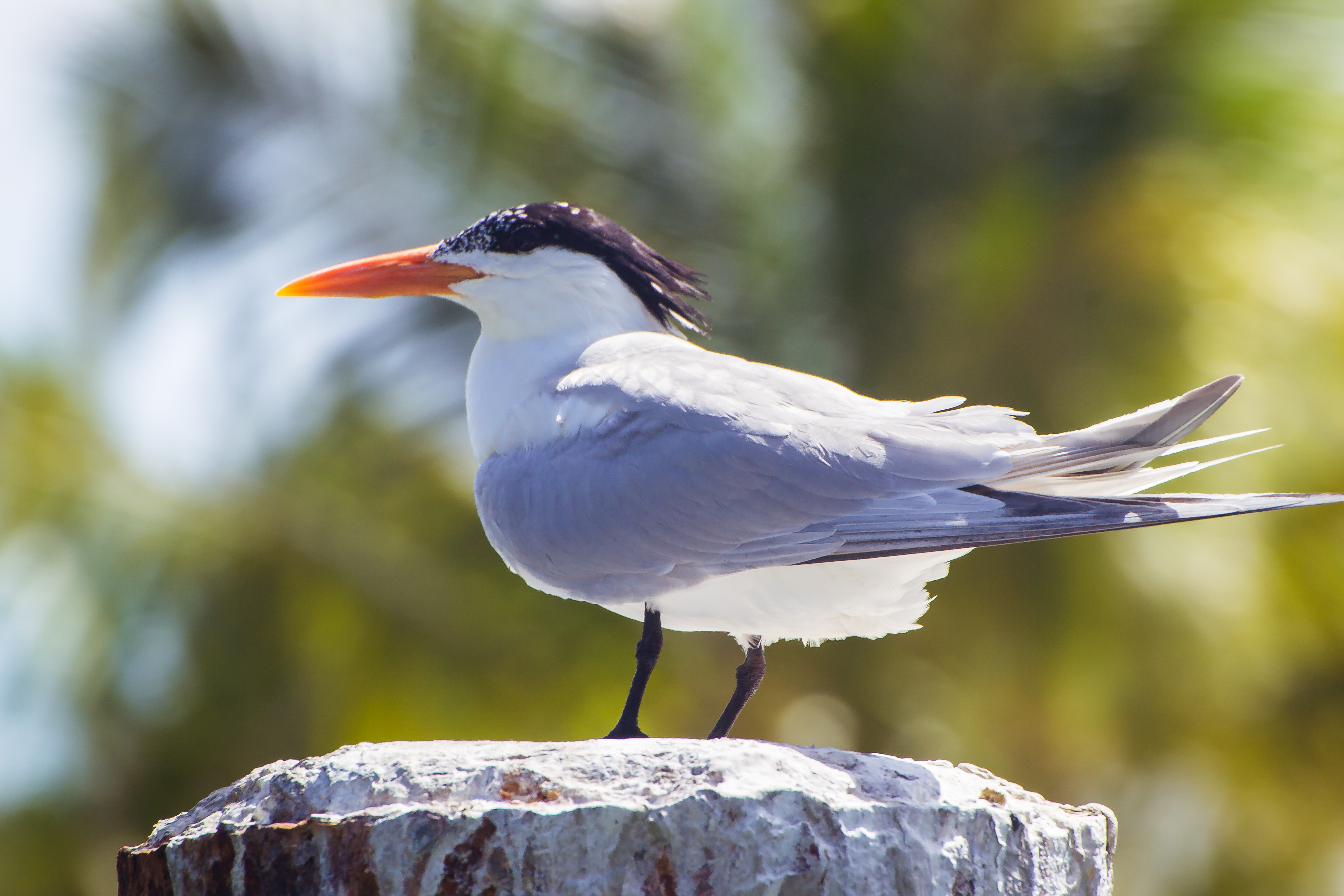 Sterne Royale observant son photographe.